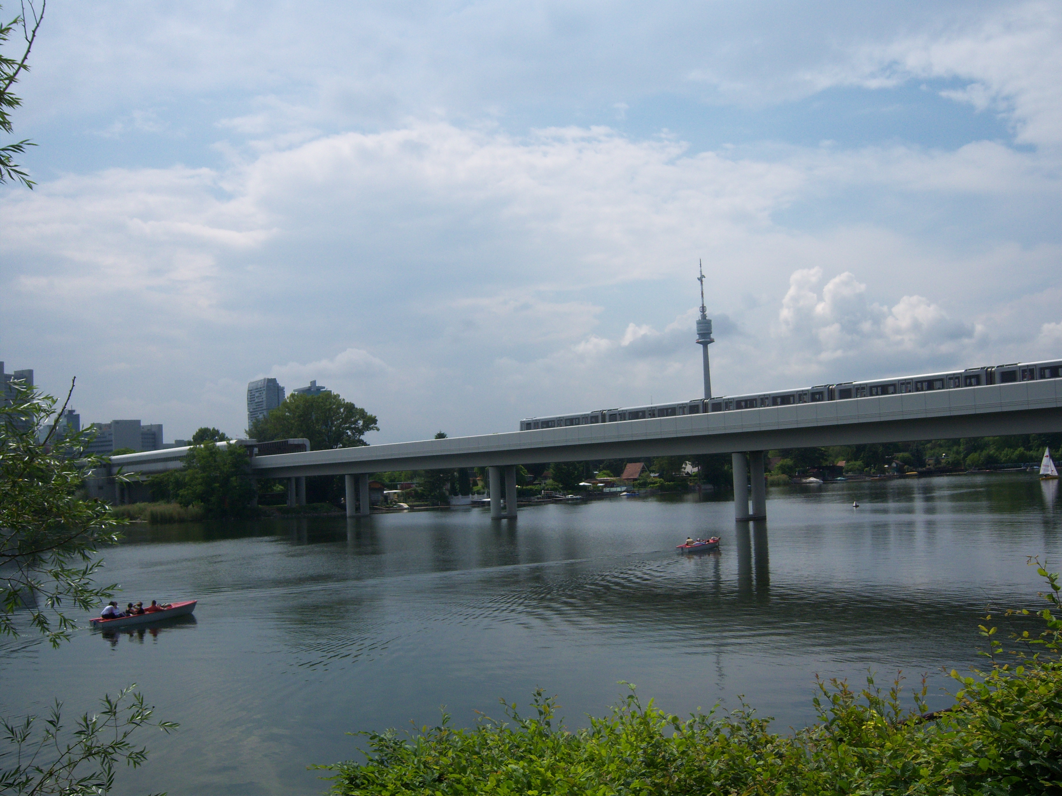 Old Danube Underground